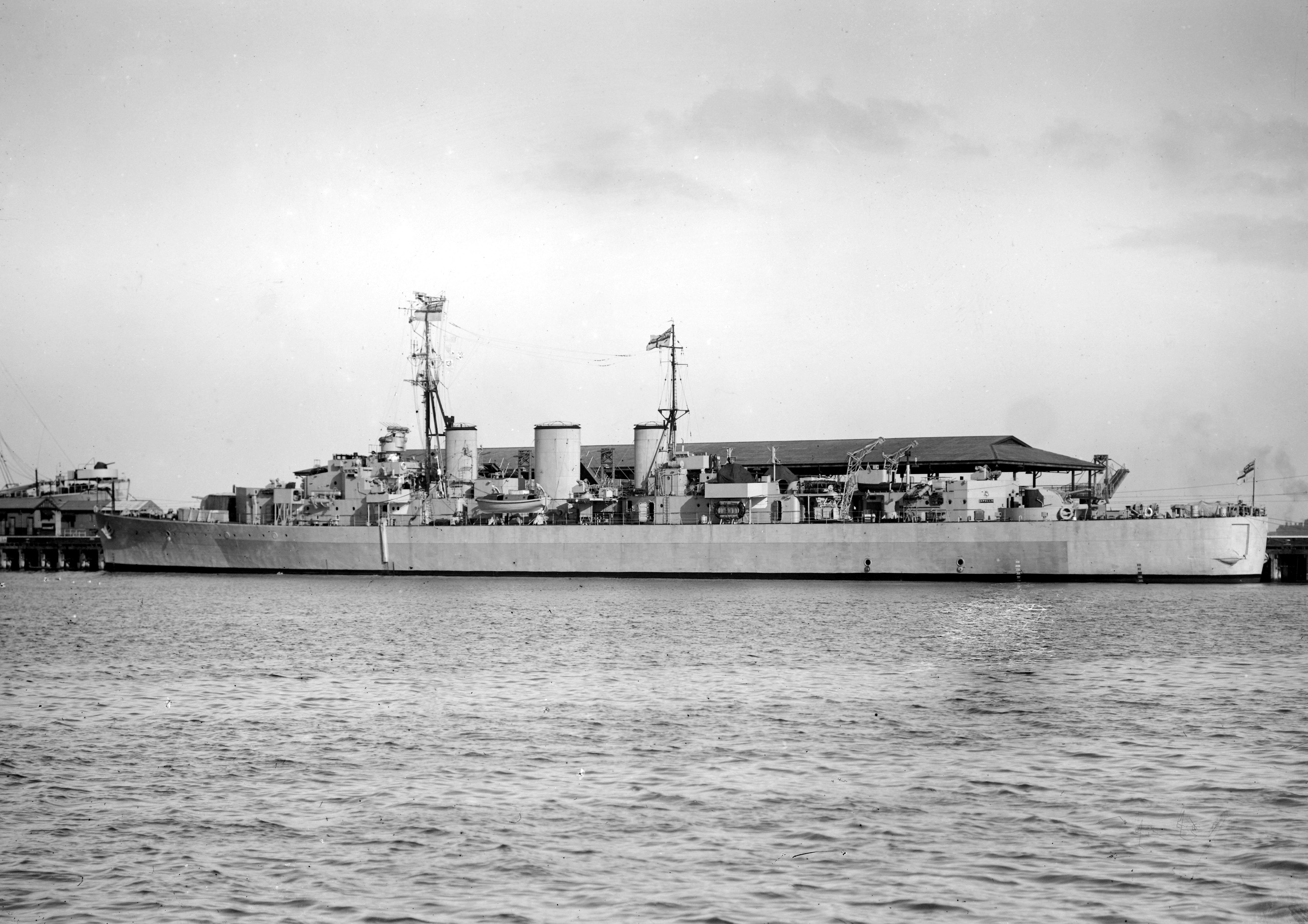 HMAS Apollo